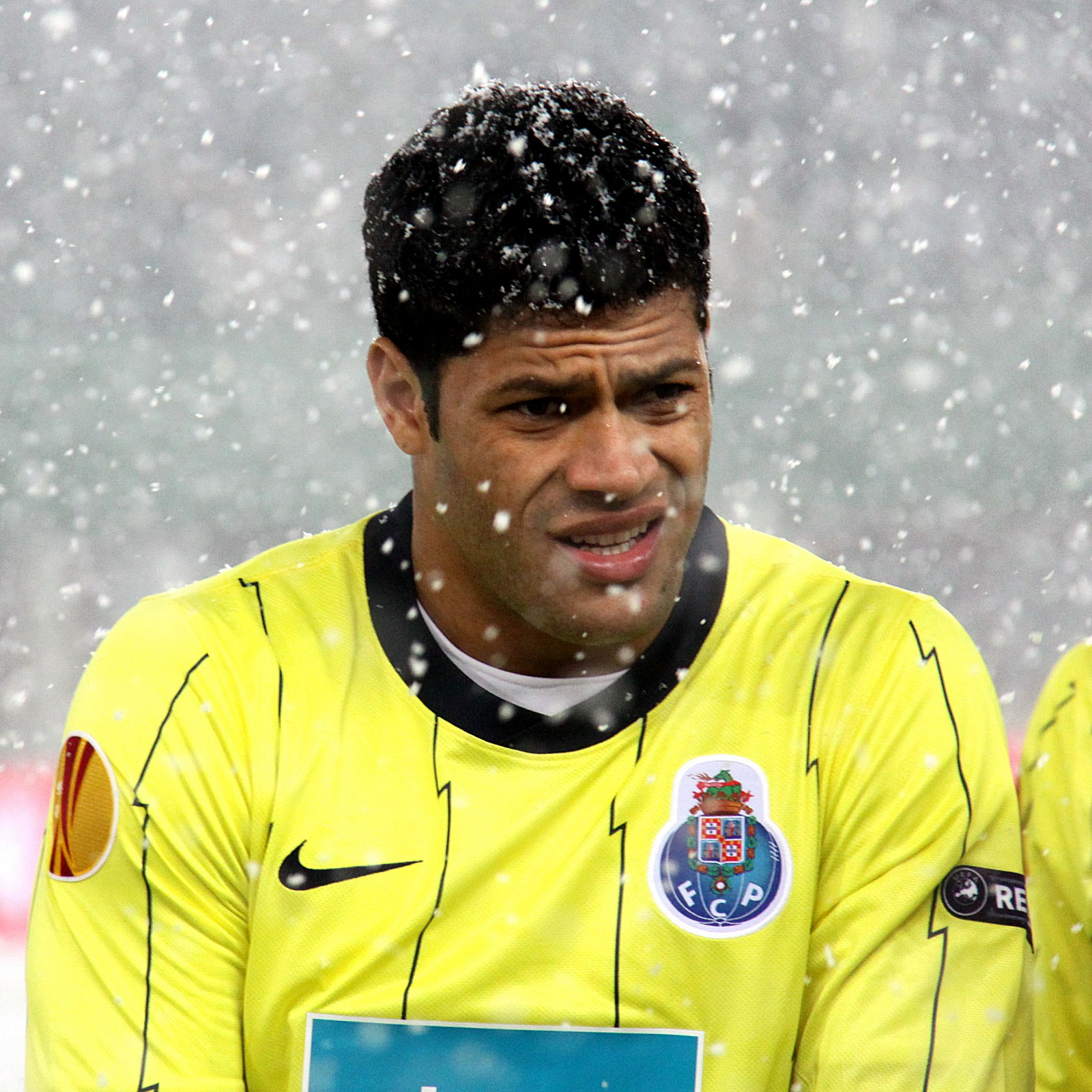 2010–11 UEFA Europa League - SK Rapid Wien vs. F.C. Porto 1:3 Ernst-Happel-Stadion (Vienna) – The brasilian player Hulk in the snow of Vienna.